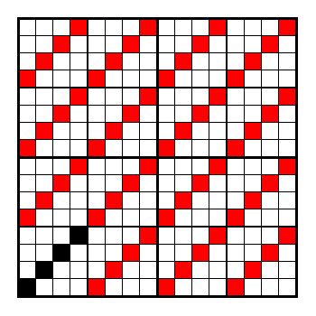 Twill weave pattern.